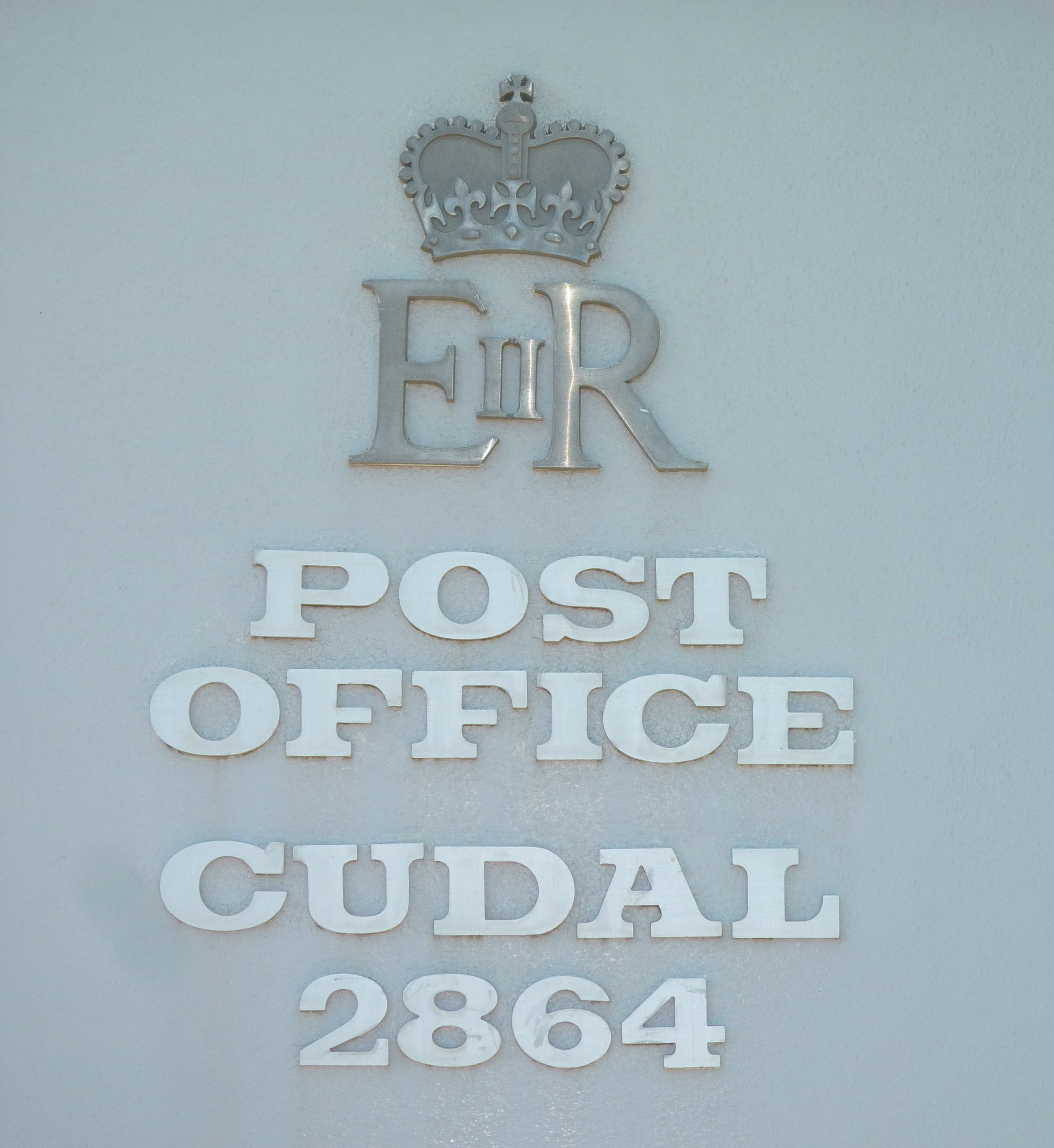 Post Office name plate, Cudal, New South Wales.